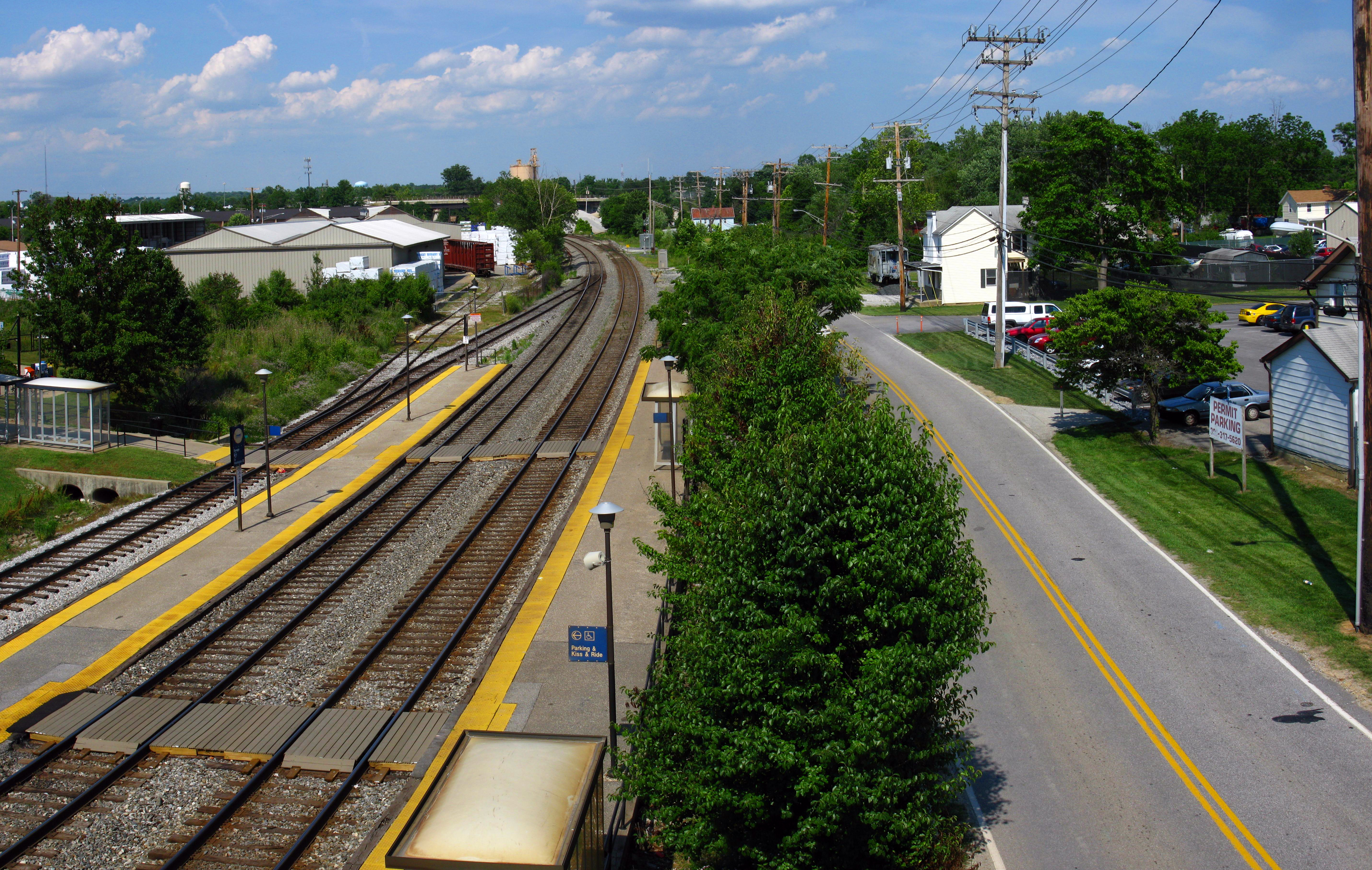 The MARC station in Savage, Maryland.